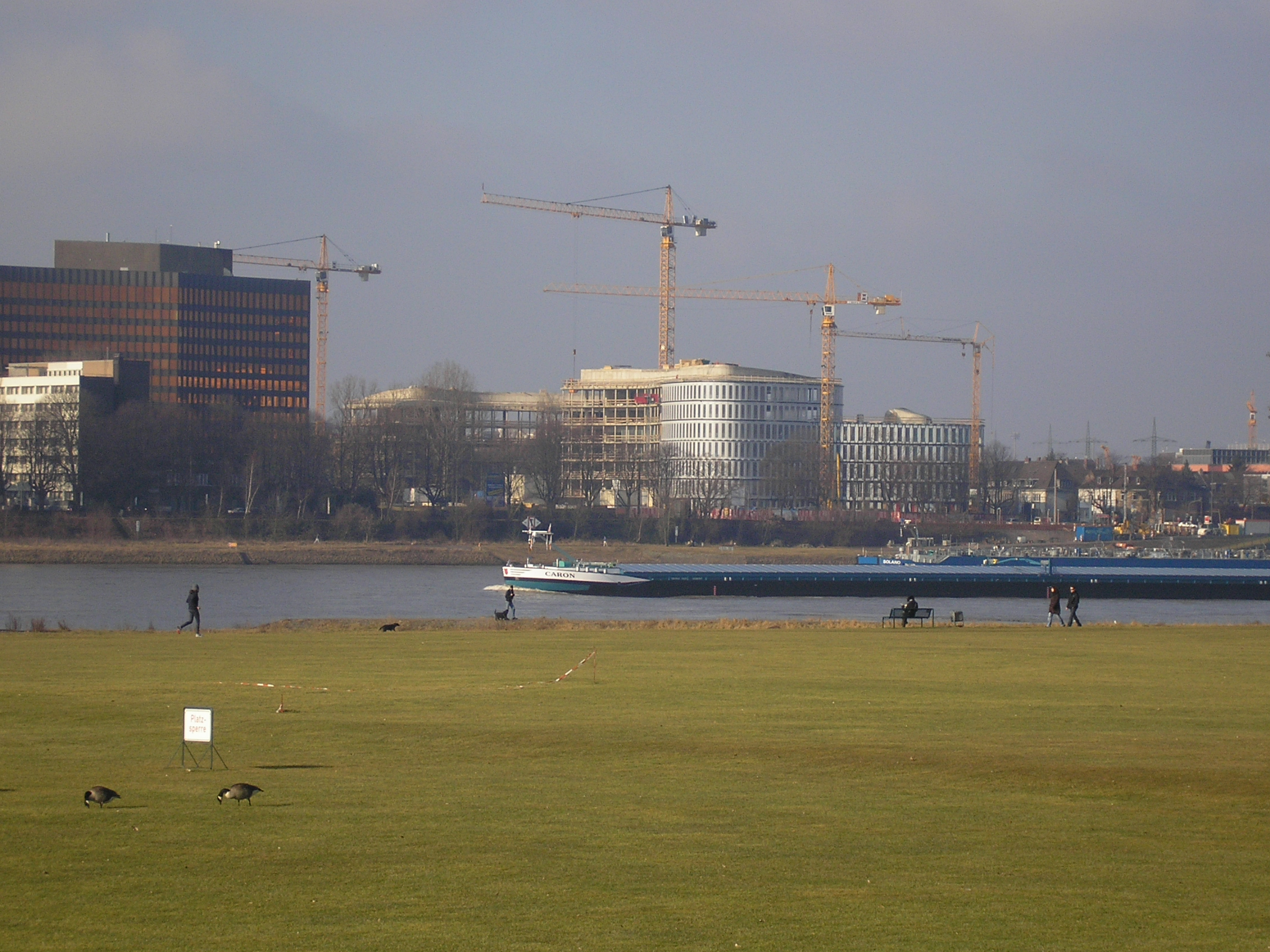 Cologne Oval Offices, a Green Building in Cologne-Bayenthal